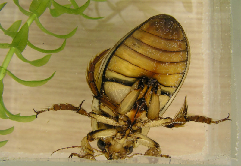 Great diving beetle, male Camera: Olympus C-5050 Zoom, photographed in cuvette and with light source of my own design. The beetle was found in a slit on the hood of a black shiny car - it probably thought it was landing on water.